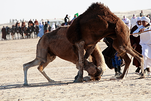 Camels fight shot at the 43rd International Festival of the Sahara in Douz, Tunisia